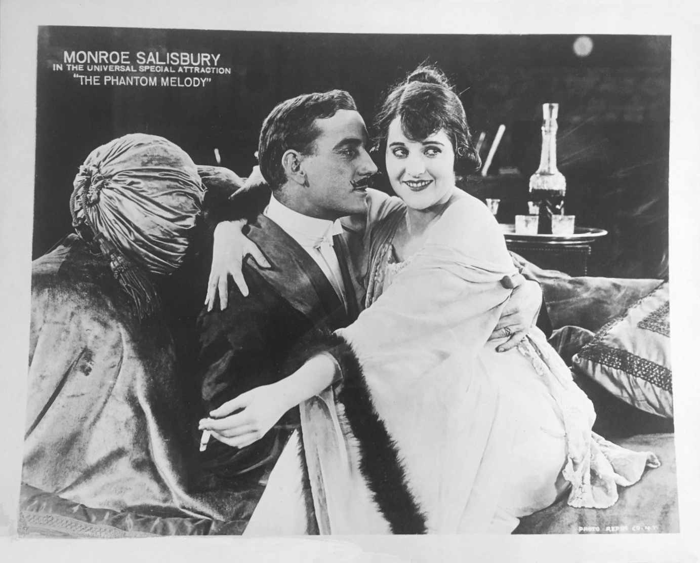 This is a lobby card for the 1920 American silent drama film The Phantom Melody.